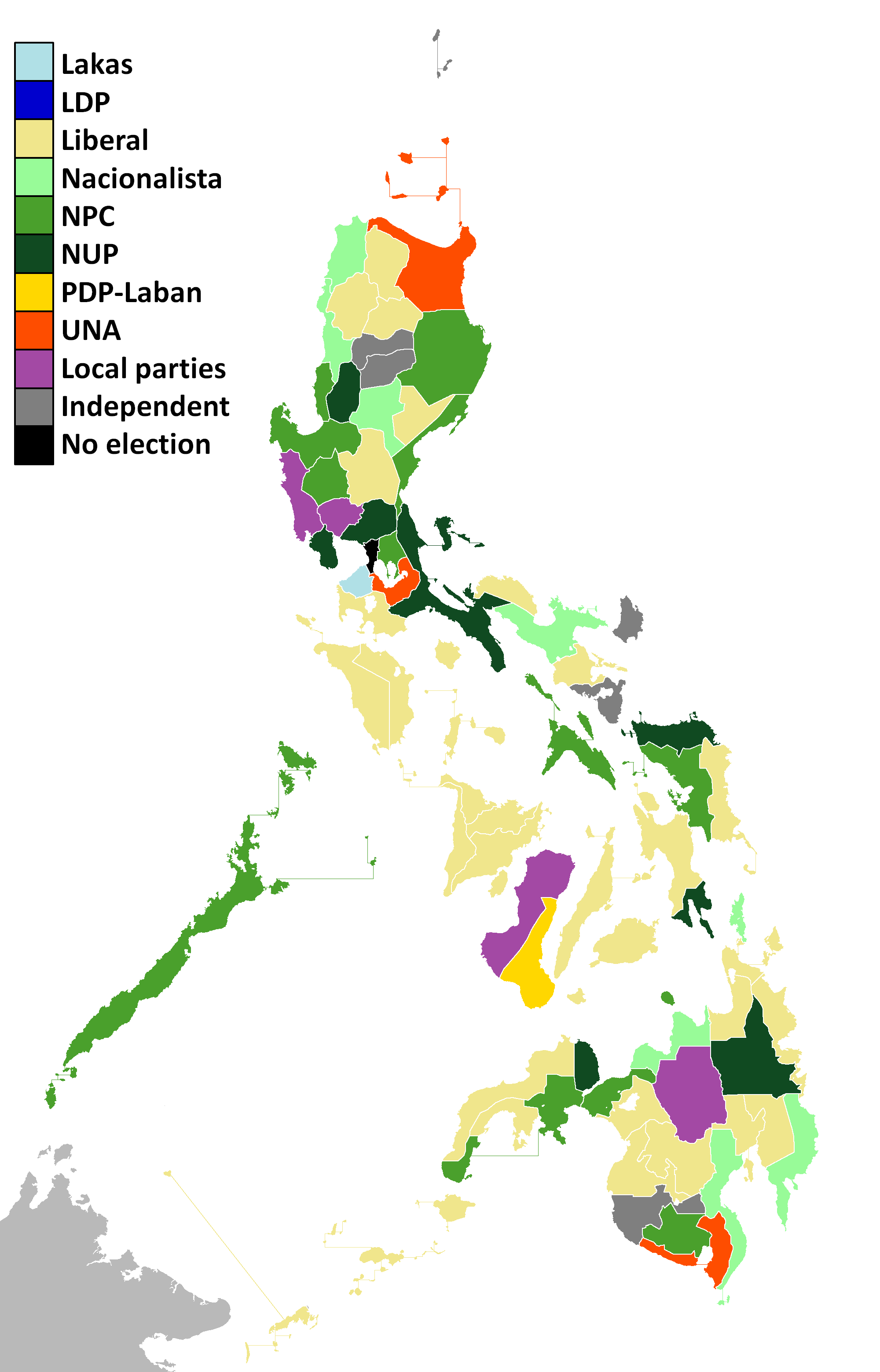 Current parties of incumbent governors prior to the Philippine gubernatorial elections.Tagalog: Mga partido ng mga nalililbihang punong-lalawigan bago ang eleksyong pang-punong-lalawigan sa Pilipinas, 2013.